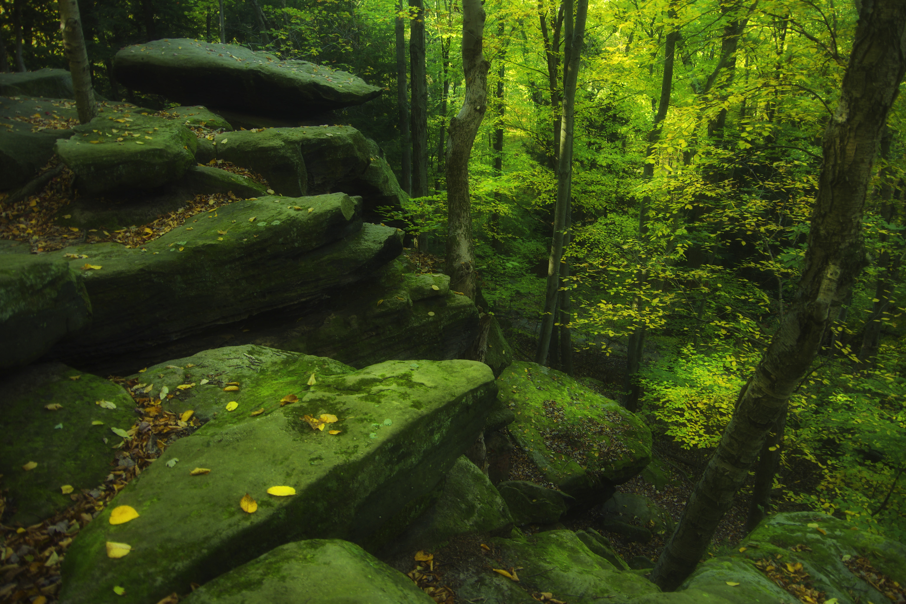 The Ledges, Cuyahoga Valley National Park, Ohio